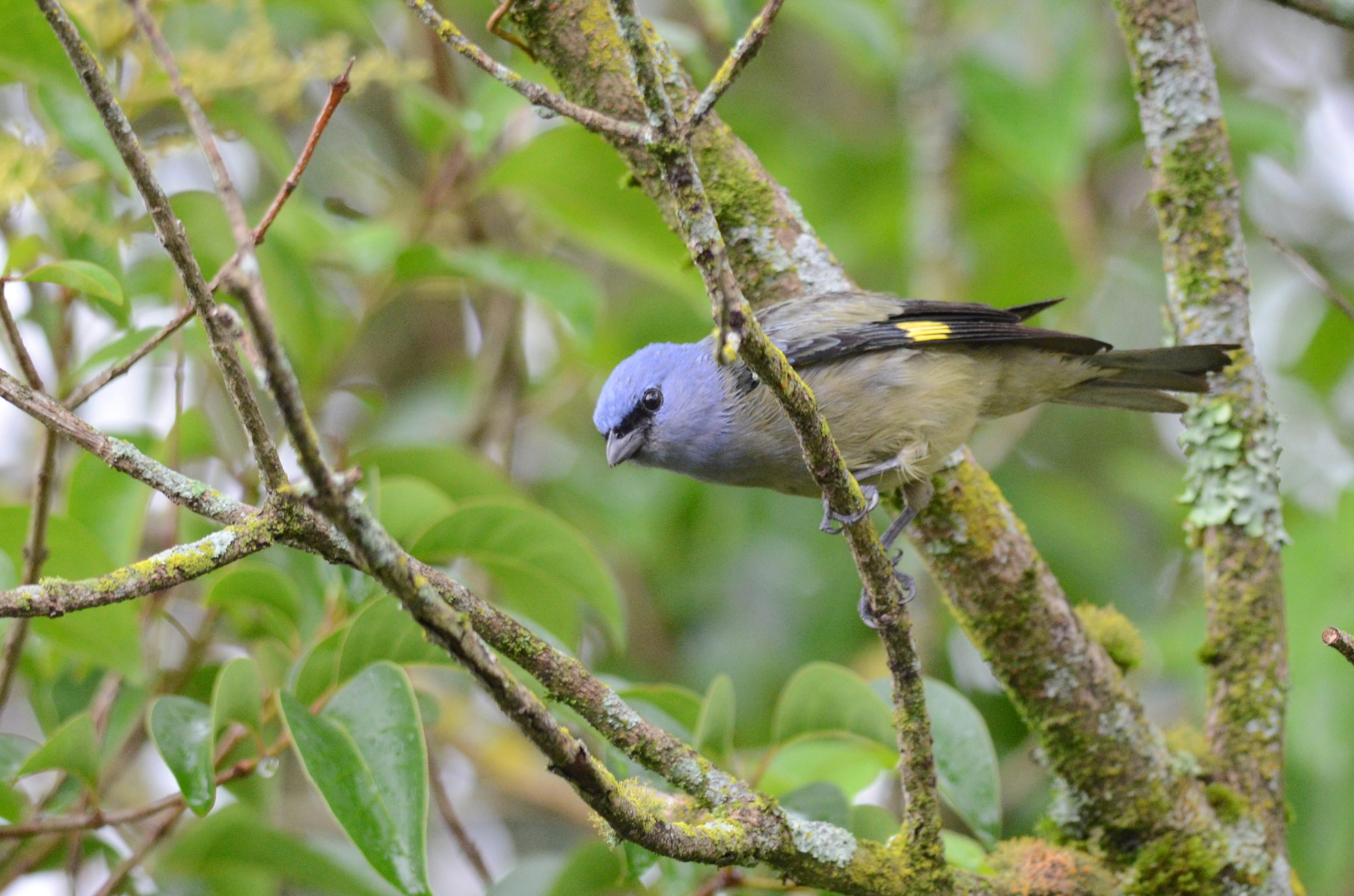 Thraupis abbas